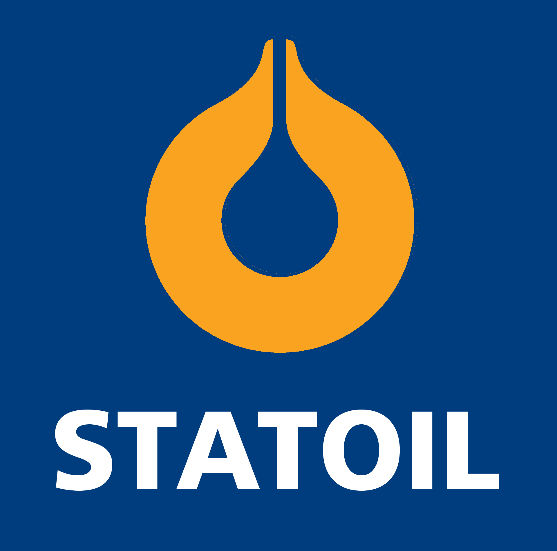 Former logo of Statoil. Discontinued in 2009.